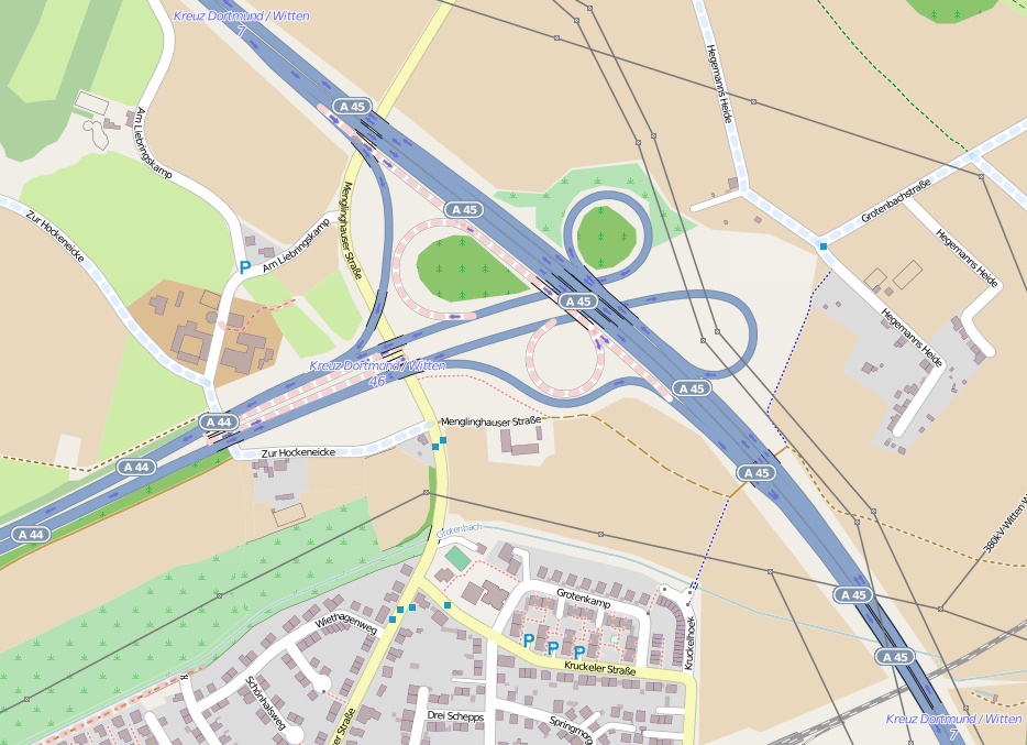 This map may be incomplete, and may contain errors. Don't rely solely on it for navigation.